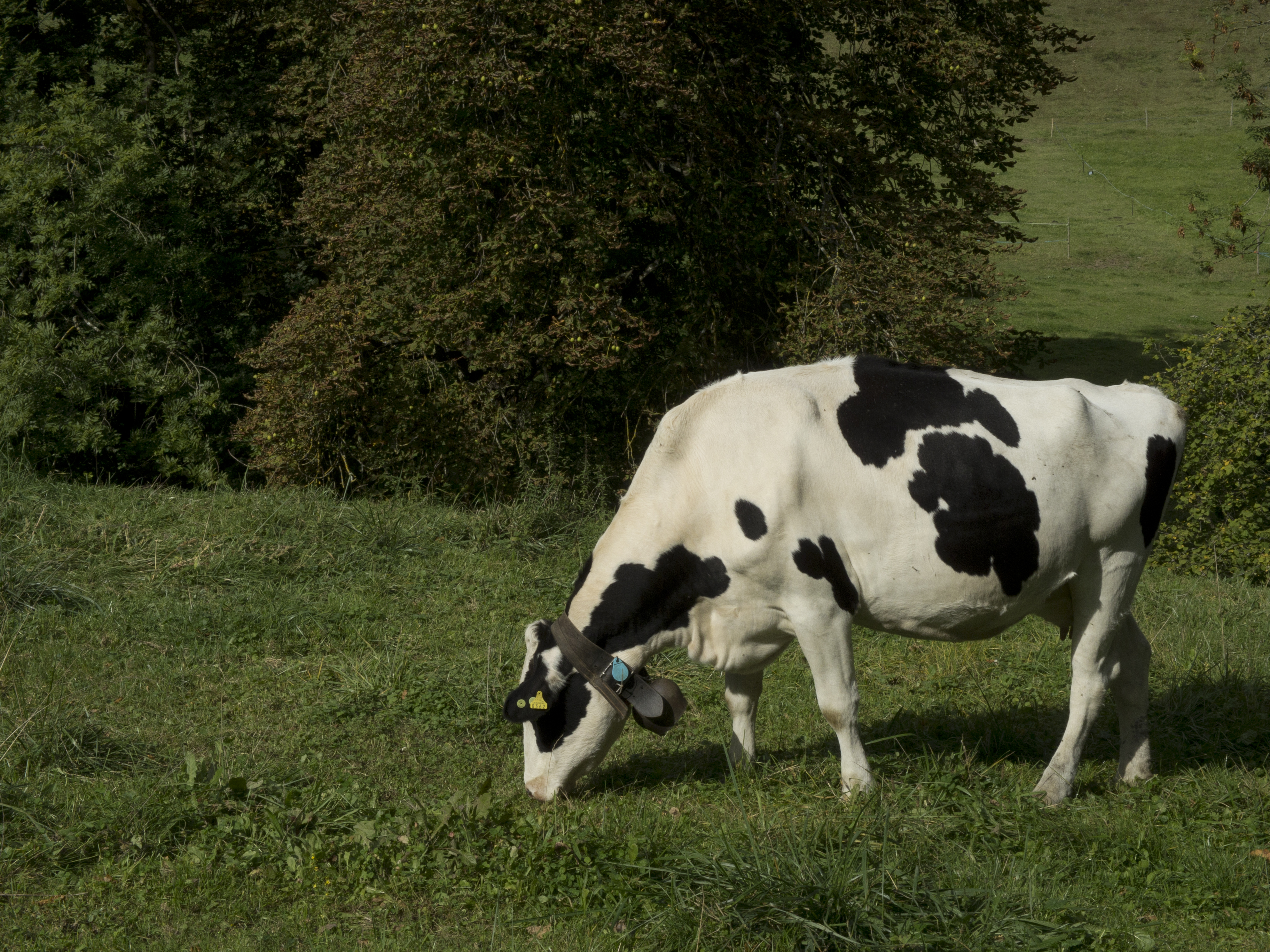 Near the borders of Vufflens-le-Château, Chigny and Monnaz in Vaud, Switzerland